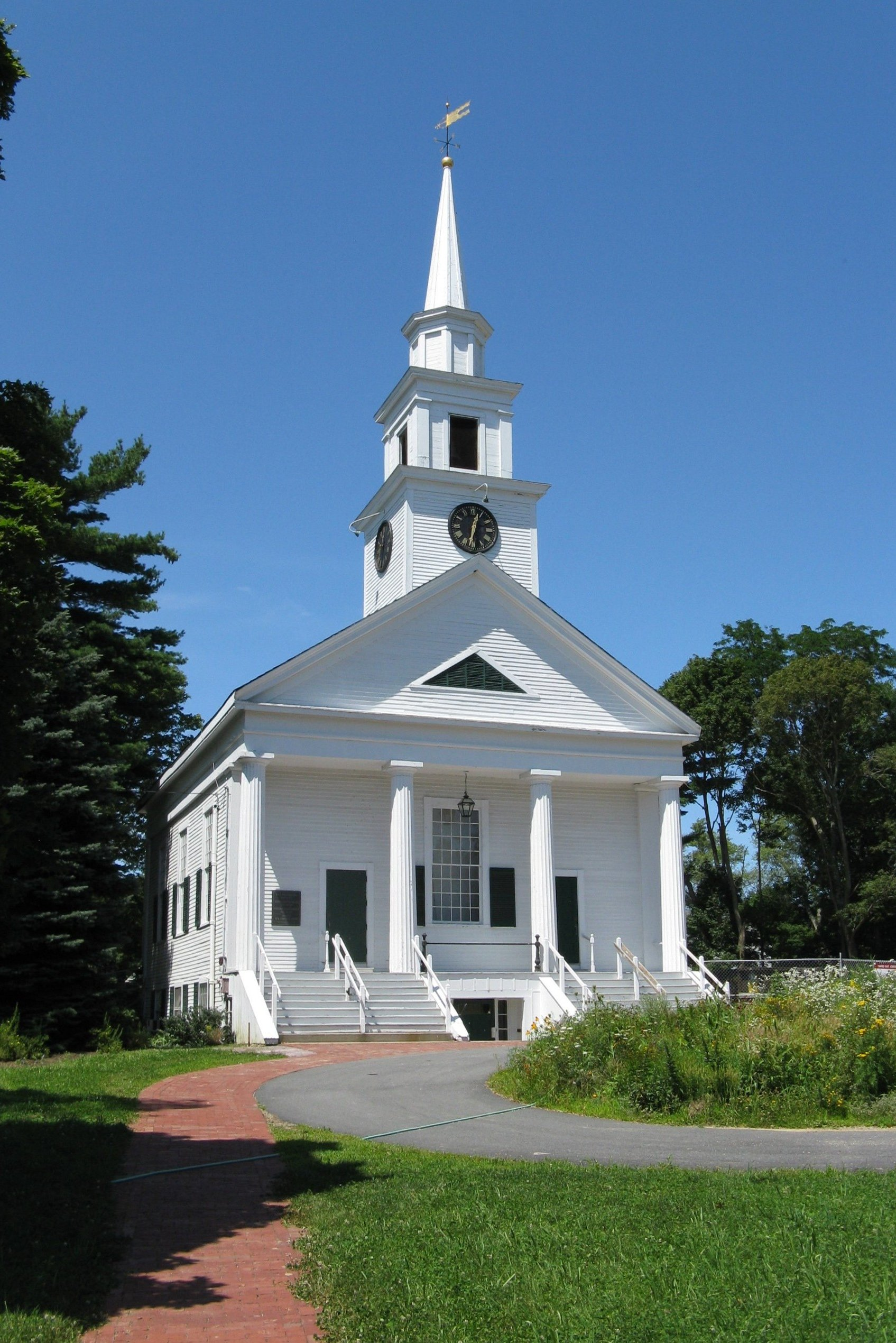 Unitarian Church, Sharon Massachusetts